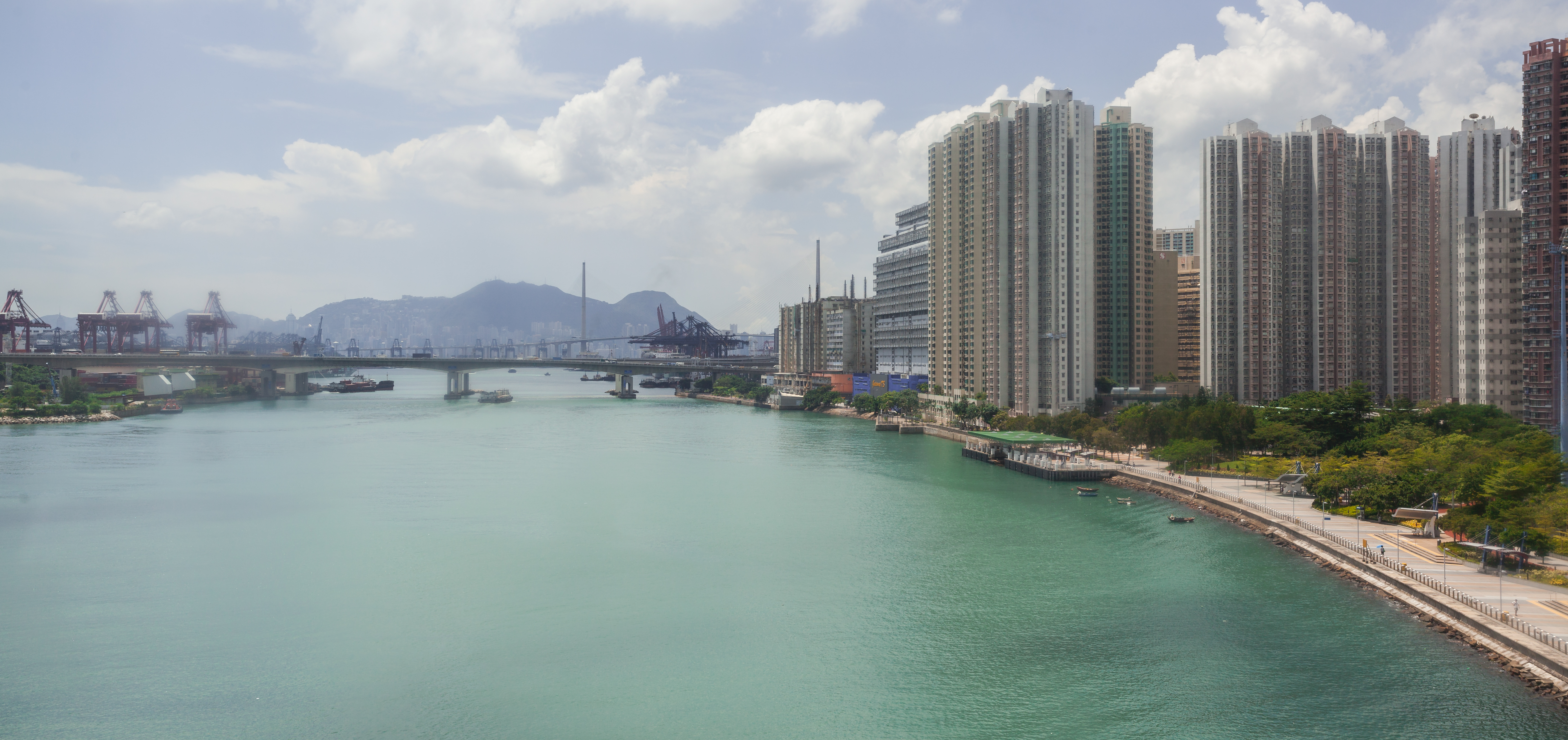 Buildings in Tung Chung, Hong Kong